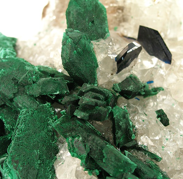 Azurite, Calcite, Malachite Locality: El Cobre Mine, Concepcion del Oro, Zacatecas, Mexico Size: cabinet, 9.5 x 8 x 7.5 cm Malachite ps. Azurite on Calcite A very aesthetic large specimen with malachite pseudomorphs after azurite perched on a large scalenohedral calcite crystal. That calcite is then covered by a second generation of sparkly, translucent, disc-shaped calcites. And lastly, there are 2 primary azurite crystals, completely sharp and pristine and mysteriously unaltered, sitting right next to the malachites. This is one of the few "attractive" specimens I have seen from the locale, where most of these malachites are not much to look at, usually. This specimen from the Dr Miguel Romero collection was on loan exhibition to the University of Arizona Museum for over a decade, until my purchase of this collection in 2008. It was on display in special cases at the museum, and has since been featured in the book "The Miguel Romero Collection of Mexico Minerals" which we sponsored as a special supplement book (published by the Mineralogical Record in December of 2008).